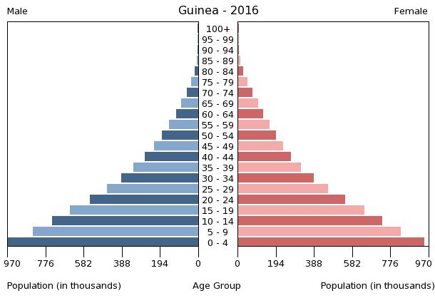 The population pyramid of Guinea illustrates the age and sex structure of population and may provide insights about political and social stability, as well as economic development. The population is distributed along the horizontal axis, with males shown on the left and females on the right. The male and female populations are broken down into 5-year age groups represented as horizontal bars along the vertical axis, with the youngest age groups at the bottom and the oldest at the top. The shape of the population pyramid gradually evolves over time based on fertility, mortality, and international migration trends.